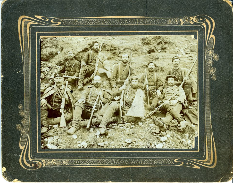 United cheta of Macedonian-Adreanople Opolchenie - voevodas Hristo Silyanov, Ivan Popov and Vasil Chekalarov from IMARO